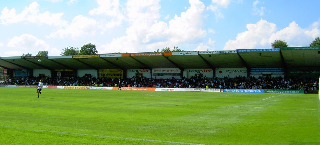 Millerntor-Stadium - homeground of the football club FC St. Pauli in Hamburg, Germany. View from the back straight to the main bridge in the south. Photo taken by Mghamburg before the third ligue match FC St. Pauli vs. SV Werder Bremen II, 19th August 2006 (Attendance: 16 400).